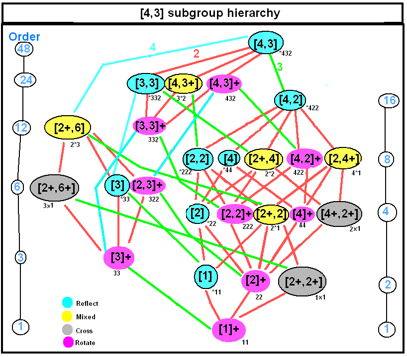 3D point symmetry subgroup hierarchy